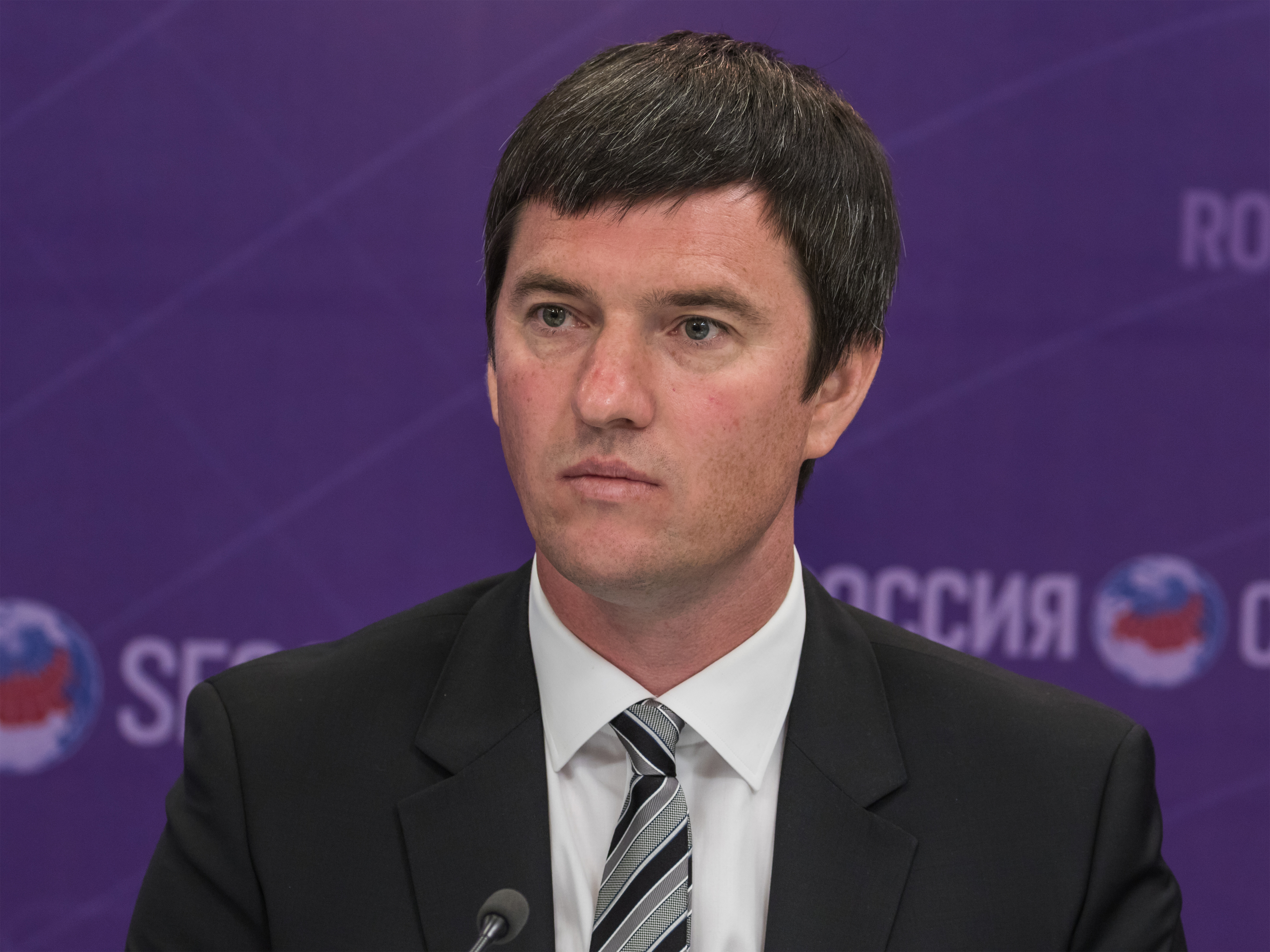 Alexey Svirin (b. 1978) is a Russian rower.